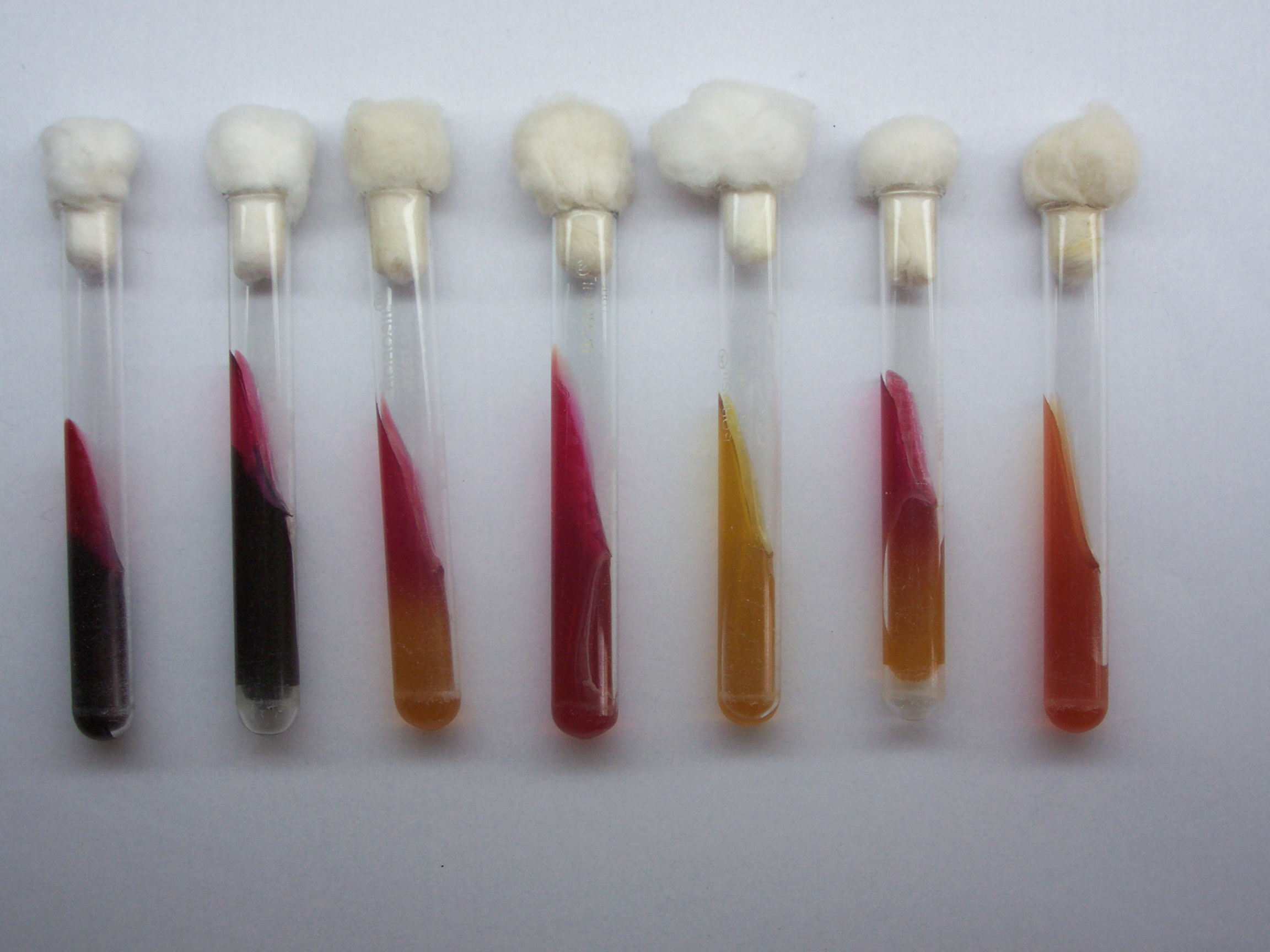 Triple sugar iron (TSI) agar with various combinations of reactions.